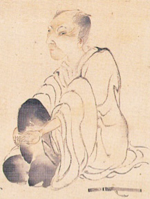 a self-portrait of the late Edo literati painter Tanomura Chikuden